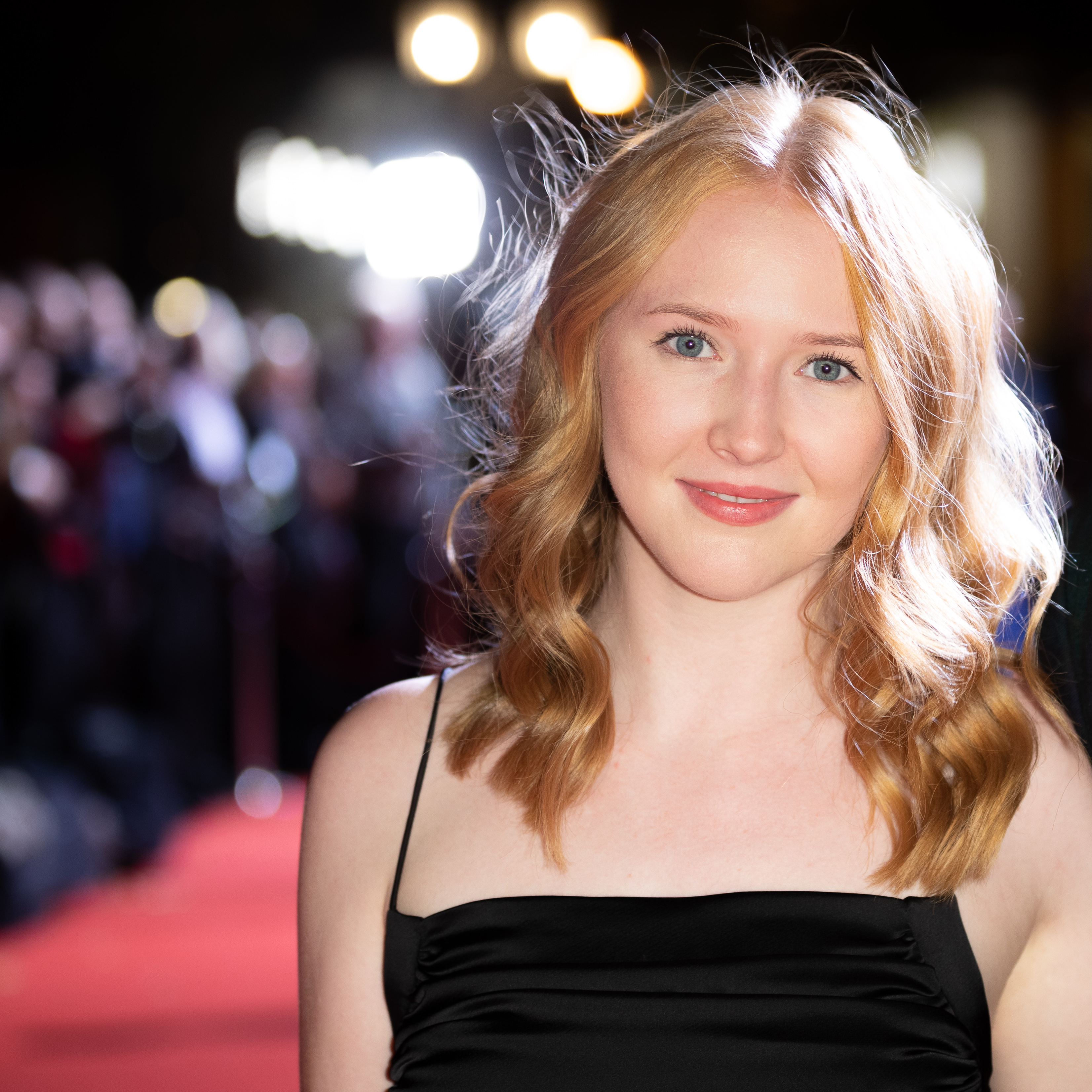 Gina Stiebitz on the red carpet of the Hessian Film and Cinema Prize 2019 in the Alte Oper Frankfurt.